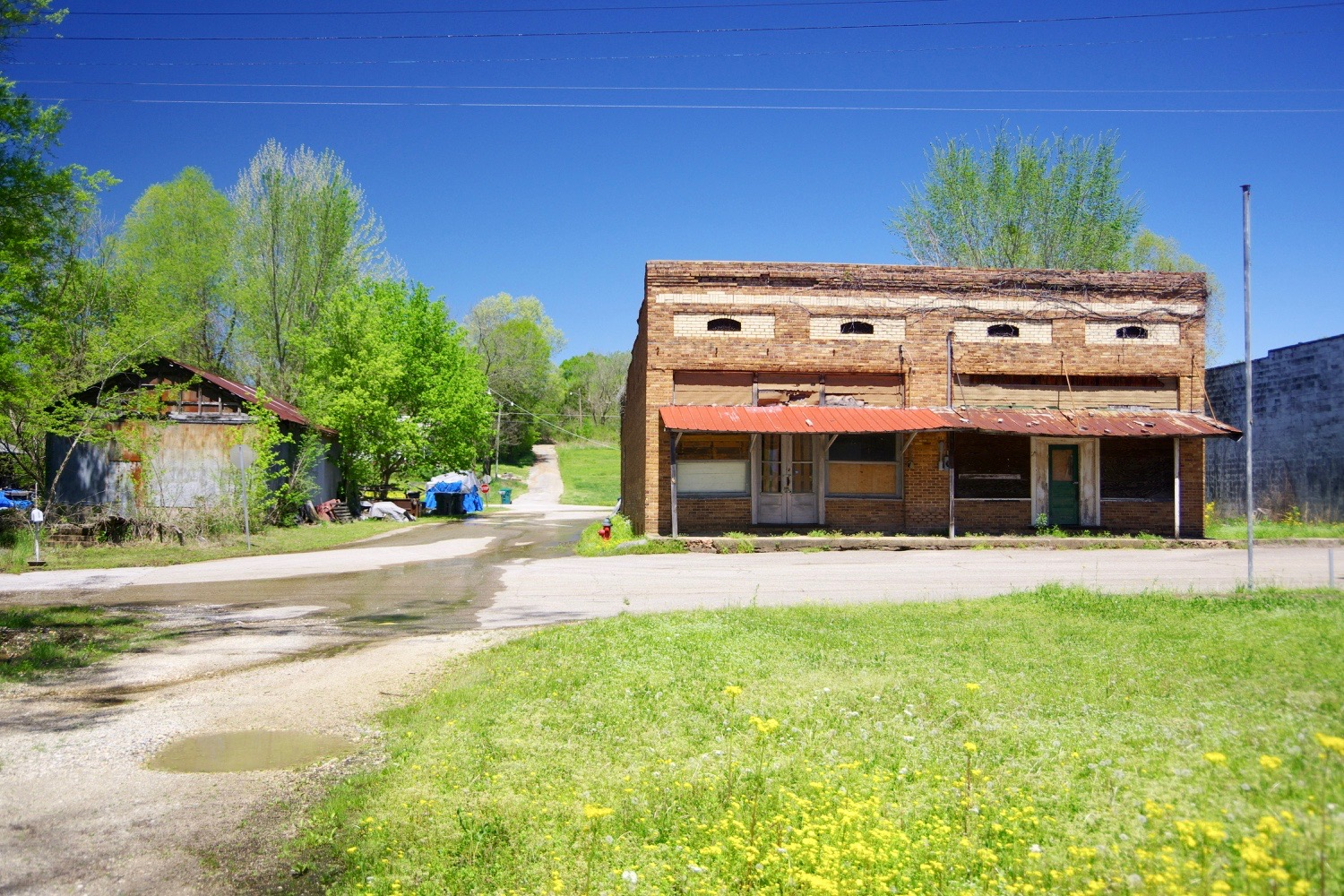 View along Spring Street in Hollow Rock, Tennessee, United States.